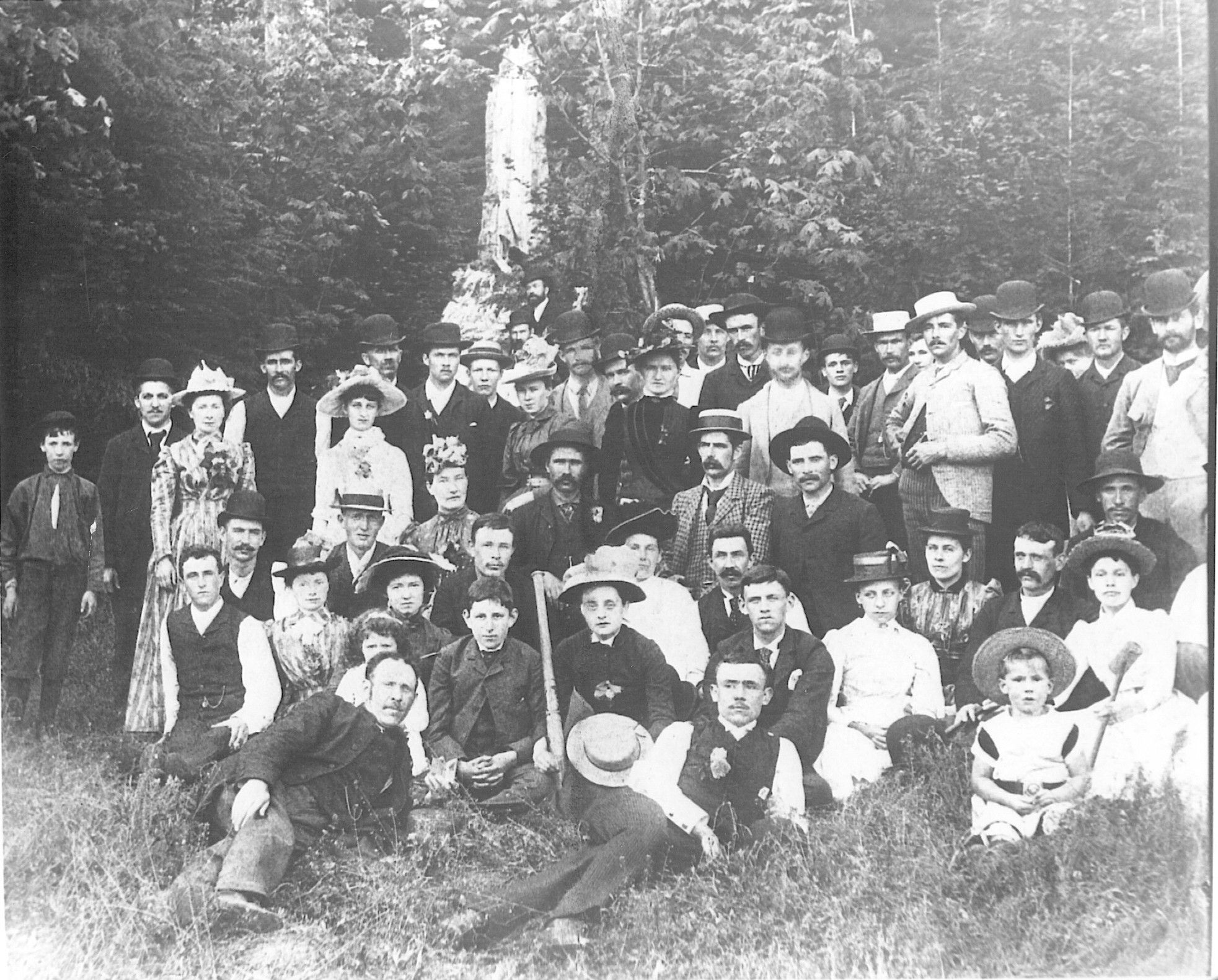 Future Vancouver Mayor T.S. Baxter in center foreground. His future wife Sarah Whiteside standing second from left in white dress. More details on photograph provided in Vancouver Sunday Province Newspaper, April 19, 1925.